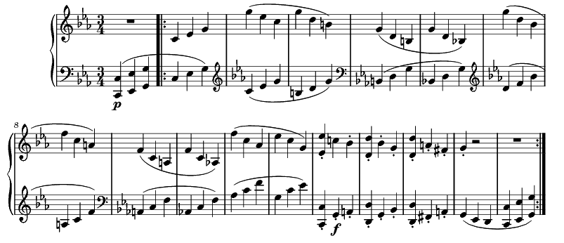 Second Movement Theme Piano Sonata, No. 13, Op. 27 No. 1 Sonata quasi una Fantasia by Ludwig van Beethoven.